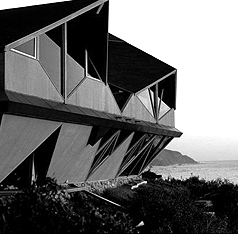 Photo taken of Jim Simkin's Big Sur home in 1975